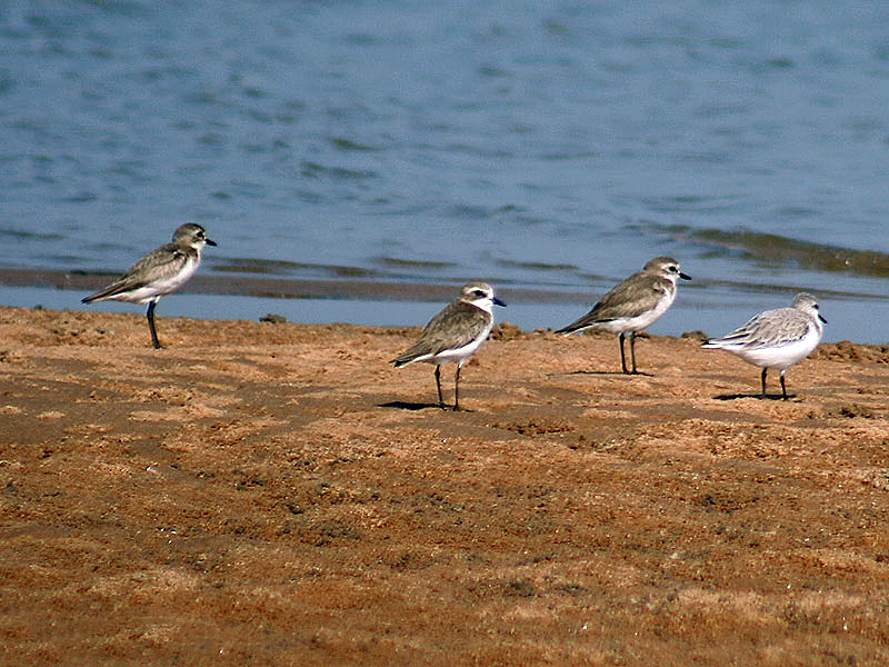 Lesser Sand Plover Charadrius mongolus & Sanderling Calidris alba in Chilika, Orissa, India.